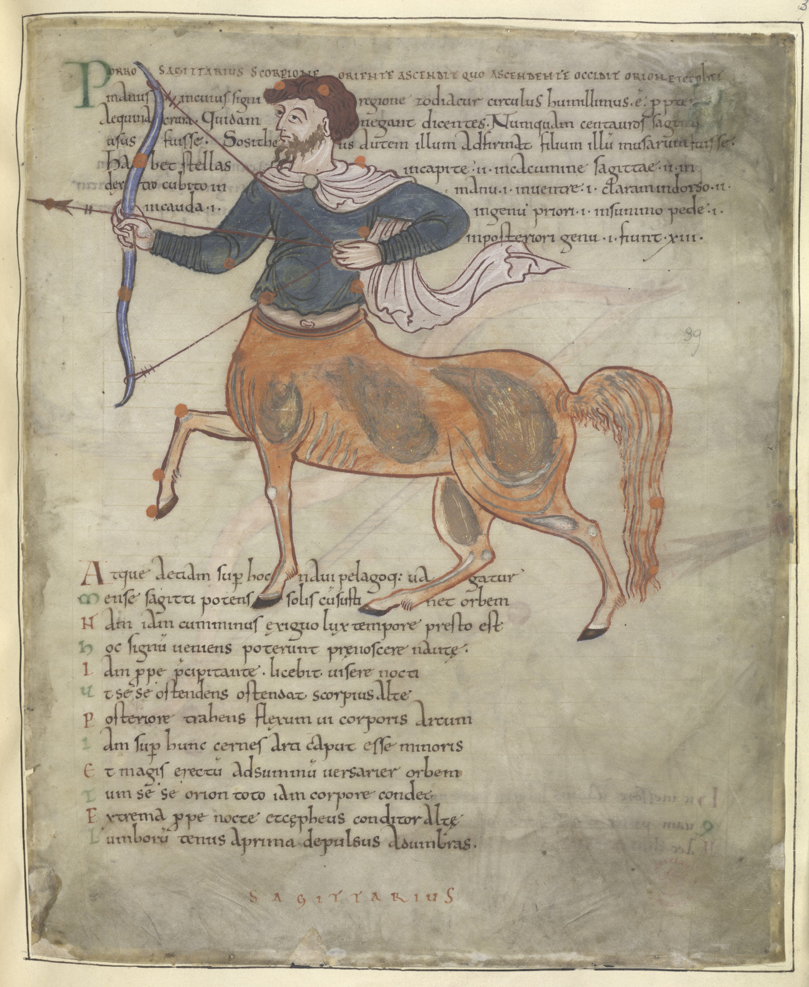 Sagittarius (Whole folio) Illustration of the constellation Sagittarius with text